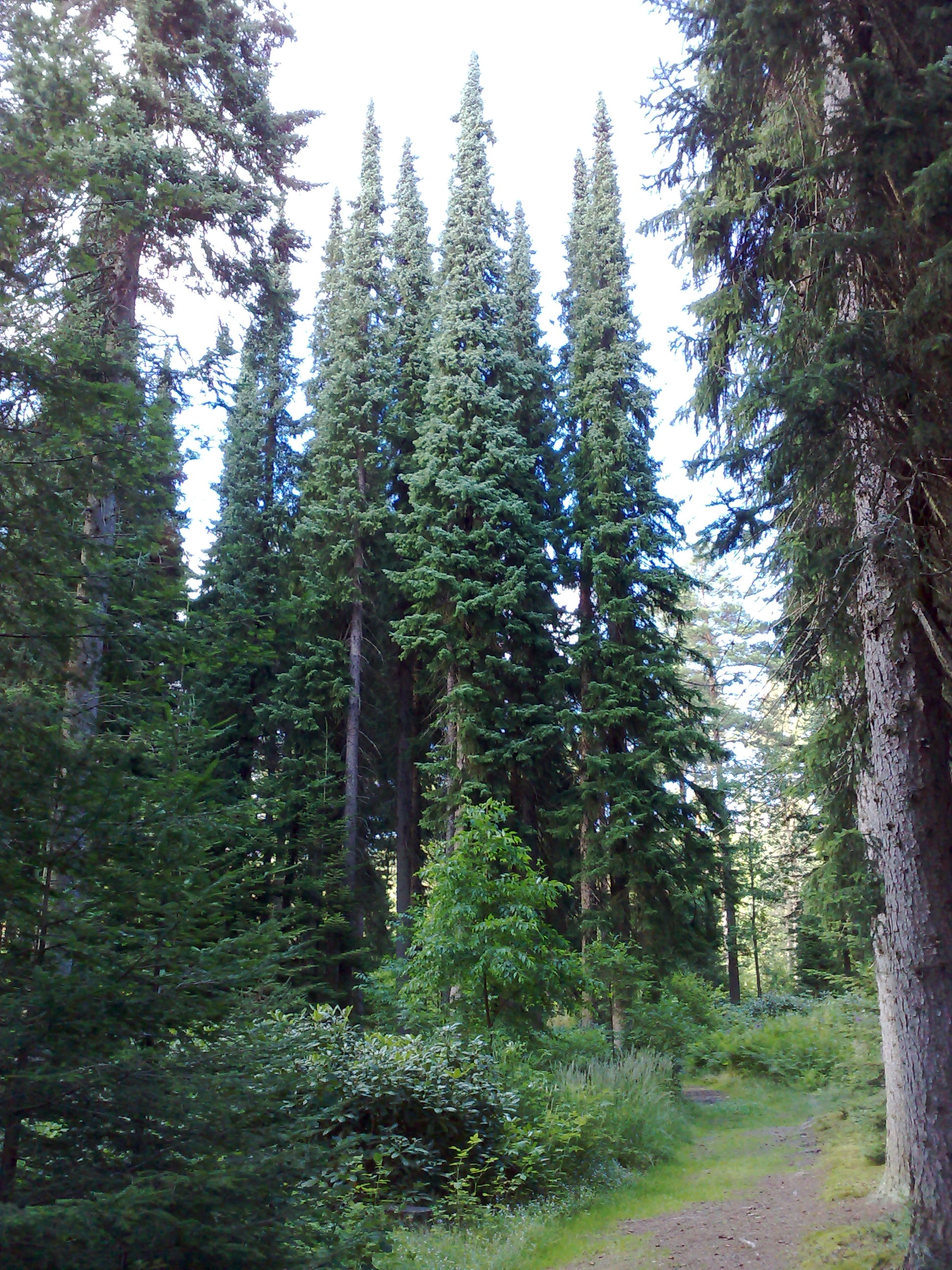 Serbian Spruce (Picea omorika), Mustila arboretum, Elimäki, Finland.